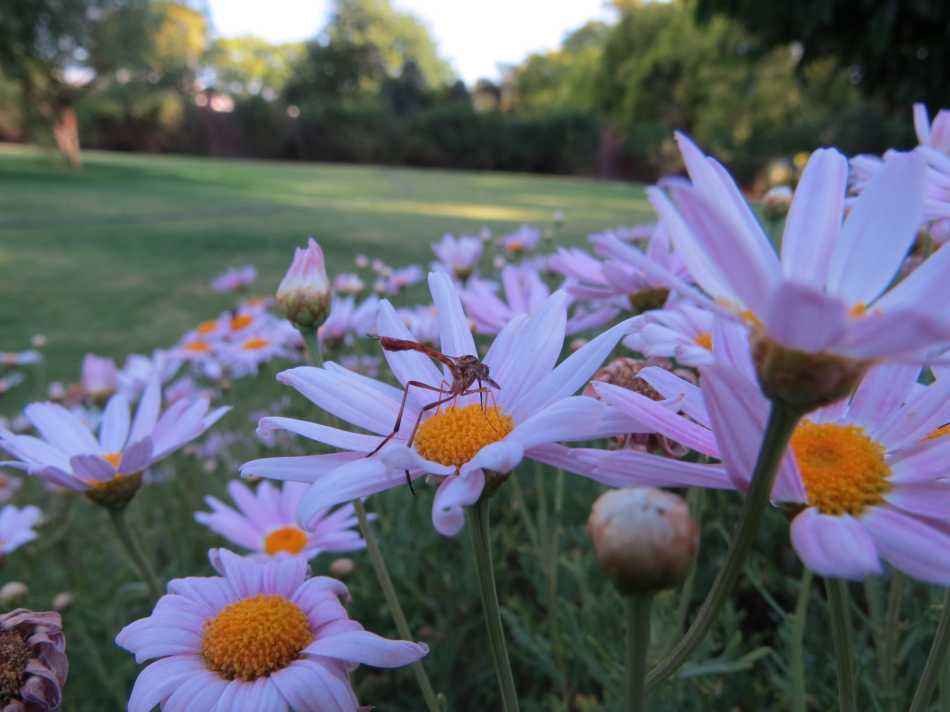 Leptynoma sericea Worm lion fly on non-indigenous flowers in the evening